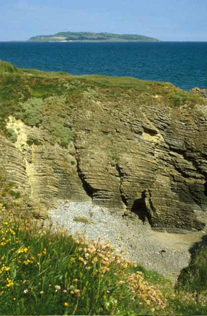 Sheltered cove at Portrane. Thinly layered Ordovician limestones form cliffs, coves and caves at Portrane. Lambay Island is visible in the distance.